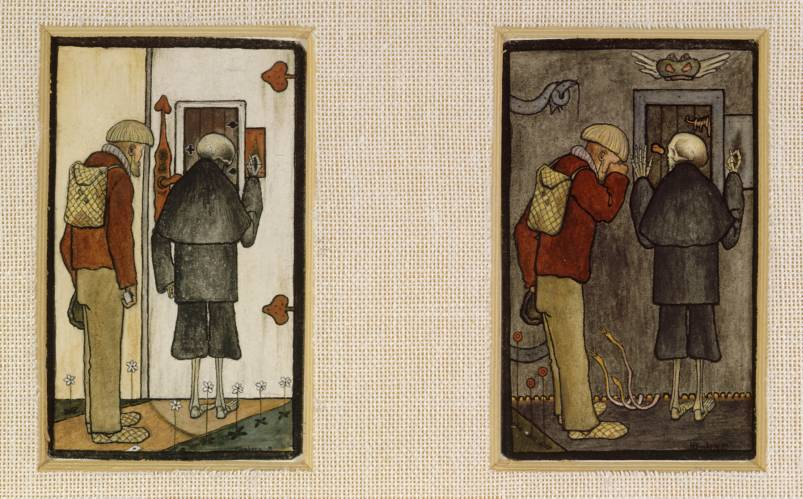 Hugo Simberg, The Peasant and Death at the Gates of Heaven and Hell (two watercolors glued on canvas, 1897), Finnish National Gallery, Helsinki.